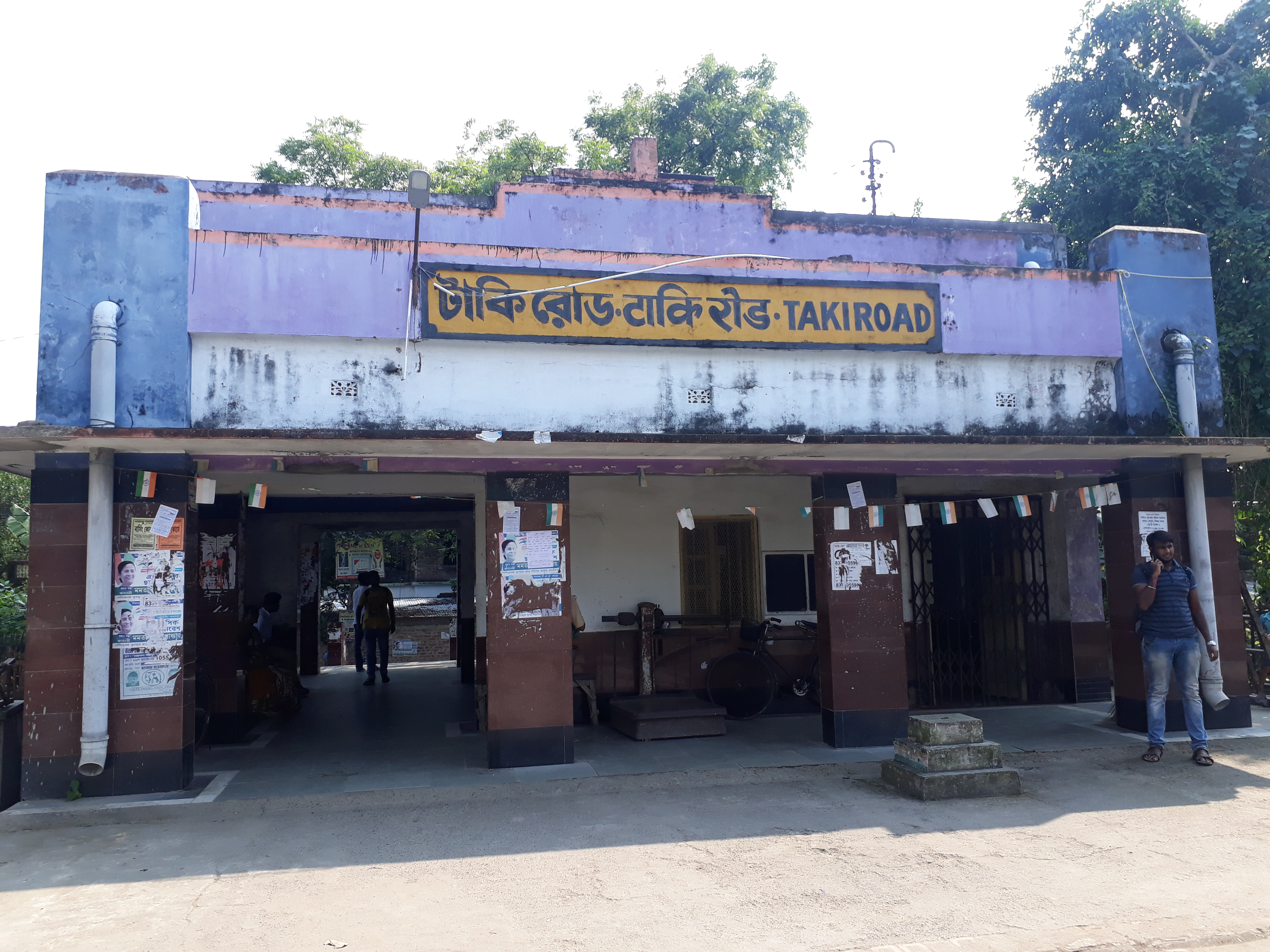 Taki Road Railway station in Barasat Hasanabad line, North 24 Pgns. West Bengal